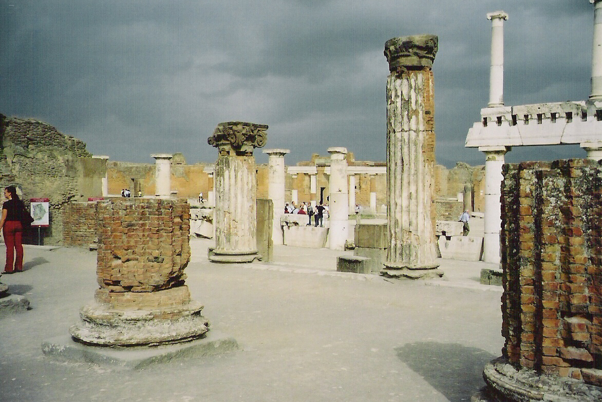 Pompeii under dark skies Category:Archaeology images